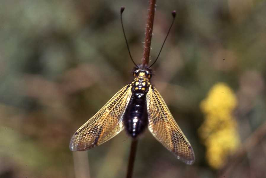 Libelloides longicornis